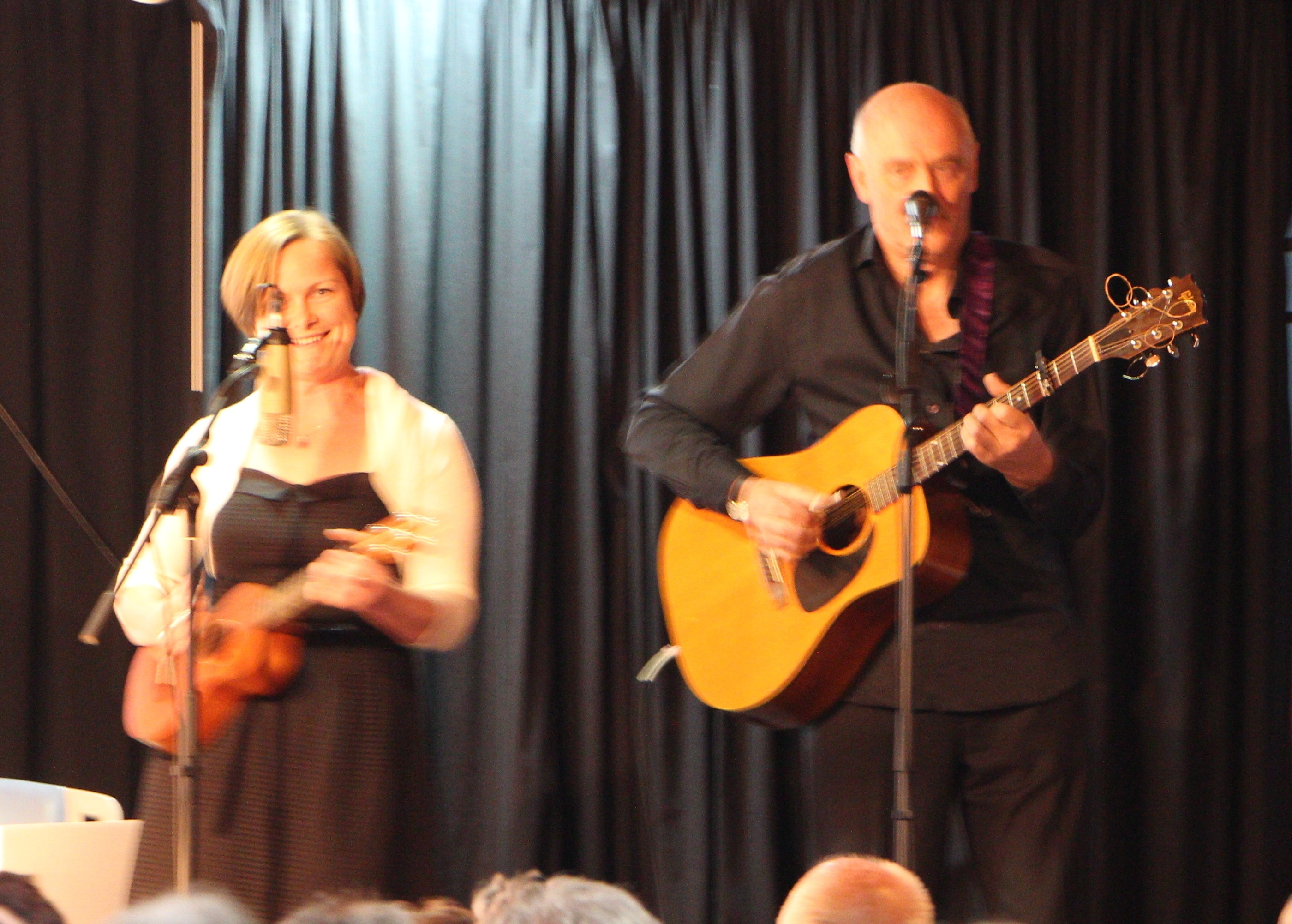 Amanda Bauer (on ukele) and Fred Watson (on guitar) provide a musical interlude at "Science in the Pub", part of the StarFest celebrations on 3 October 2014 at Coonabarabran to commemorate the 40th anniversary of the AAT.